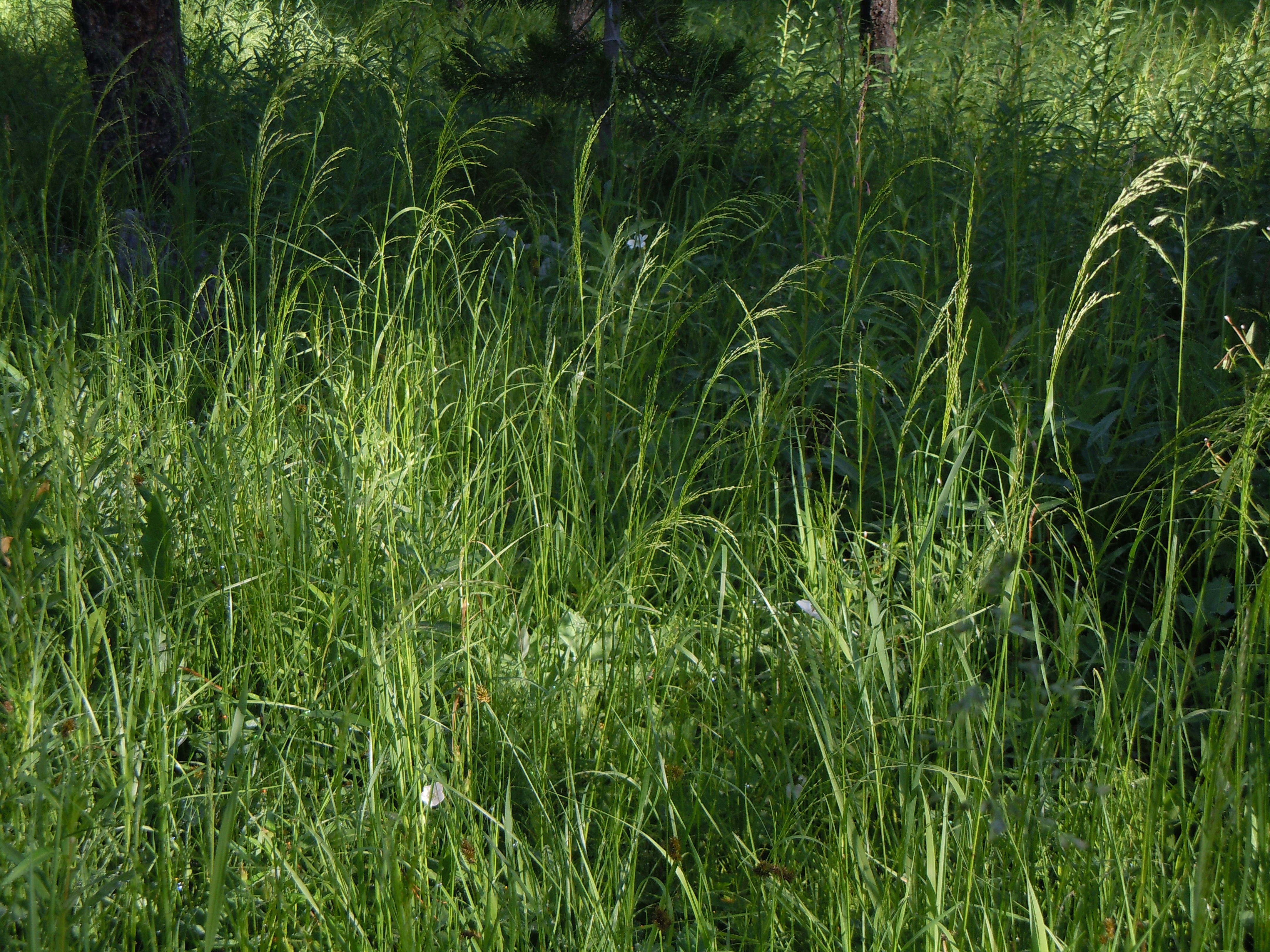 Poa palustris has a diffuse panicle (here not quite fully open) and broad leaves that are concentrated on the stem rather than basally.